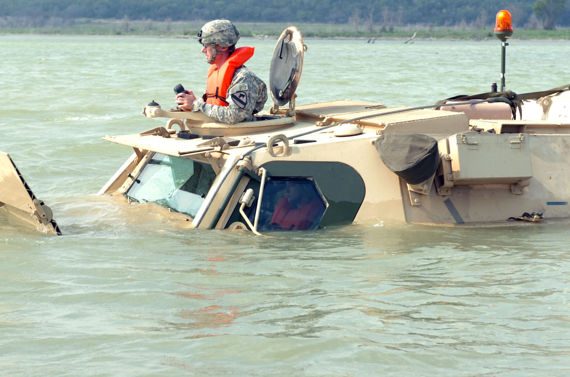 Monroe Township, N.J. native, Capt. Will Costello (left), recon platoon leader and Chutnshoot, Texas native, Spc. Jessica Kellogg (right), nuclear, biological and chemical specialist, both in Headquarters and Headquarters Company, 1st Brigade Special Troops Battalion, 1st Brigade Combat Team, 1st Cavalry Division, maneuver their M93 Fox vehicle across Blora Lake, Texas during a training exercise, July 31, 2008. The amphibious “Fox” is designed to survive and scout a chemical, biological, radiological and/or nuclear contaminated battlefield.